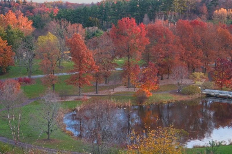 Houston_Pond of F__R__Newman_Arboretum